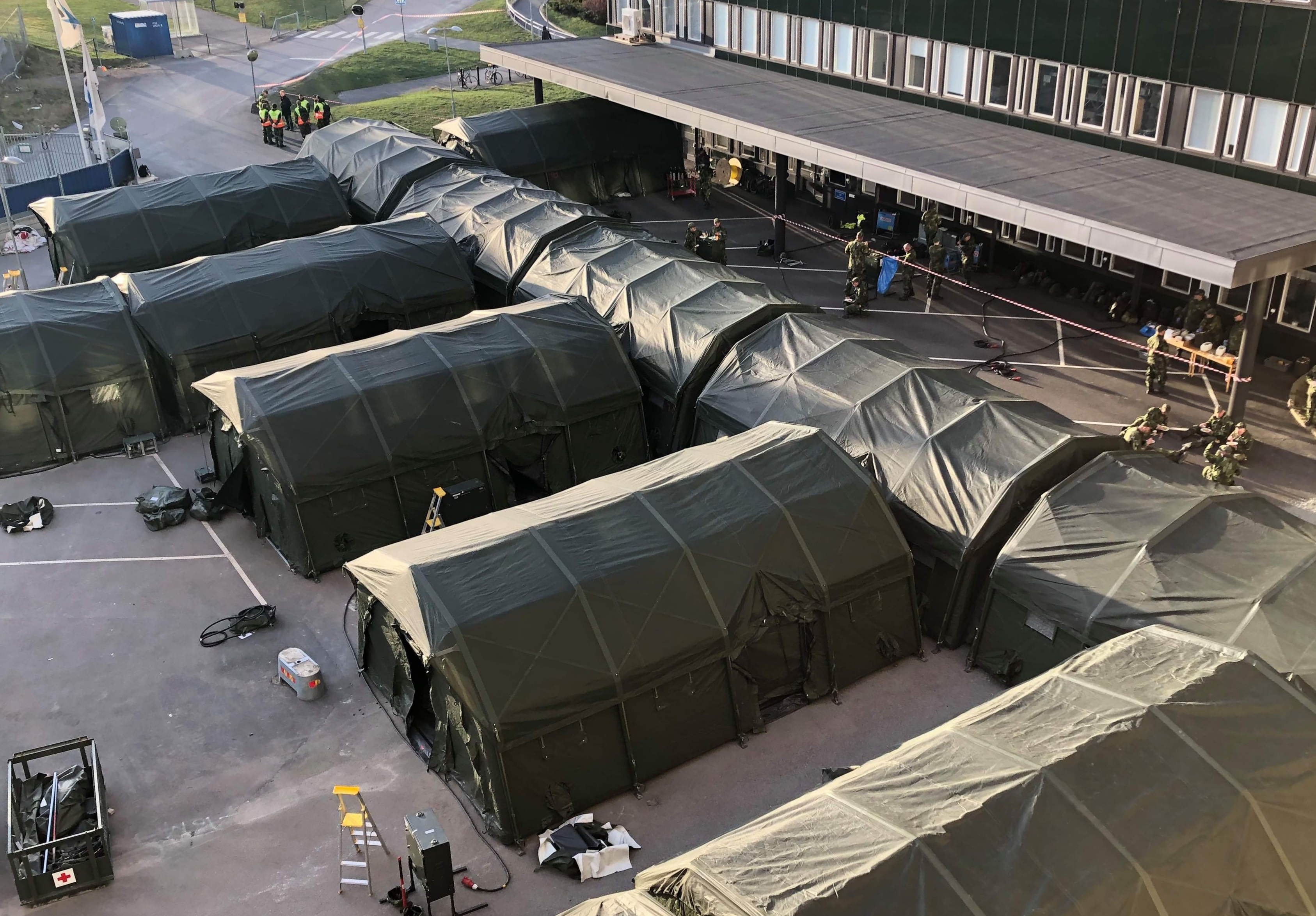 Field hospital constructed outside Östra Sjukhuset in Gothenburg in response to the 2020 COVID-19 pandemic. The tents contain a provisional intensive care unit. Copyright through Helén Sjöland.